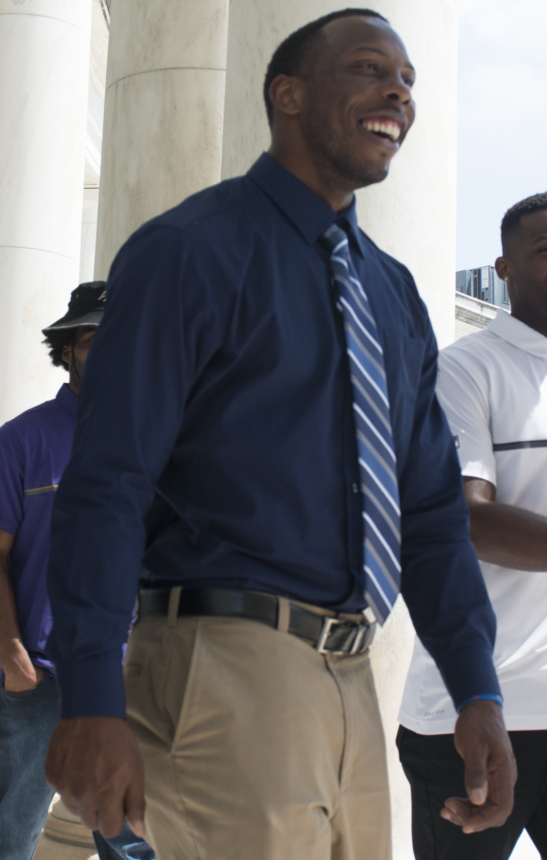 Matt Judon, outside linebacker; Otha Foster, defensive back; and Anthony Levine Sr., defensive back; of the Baltimore Ravens walk through the Memorial Amphitheater at Arlington National Cemetery, Arlington, Va., Aug. 21, 2017. The Ravens visited the cemetery as part of the U.S. Army’s and the NFL’s community outreach program. (U.S. Army photo by Elizabeth Fraser / Arlington National Cemetery / released)